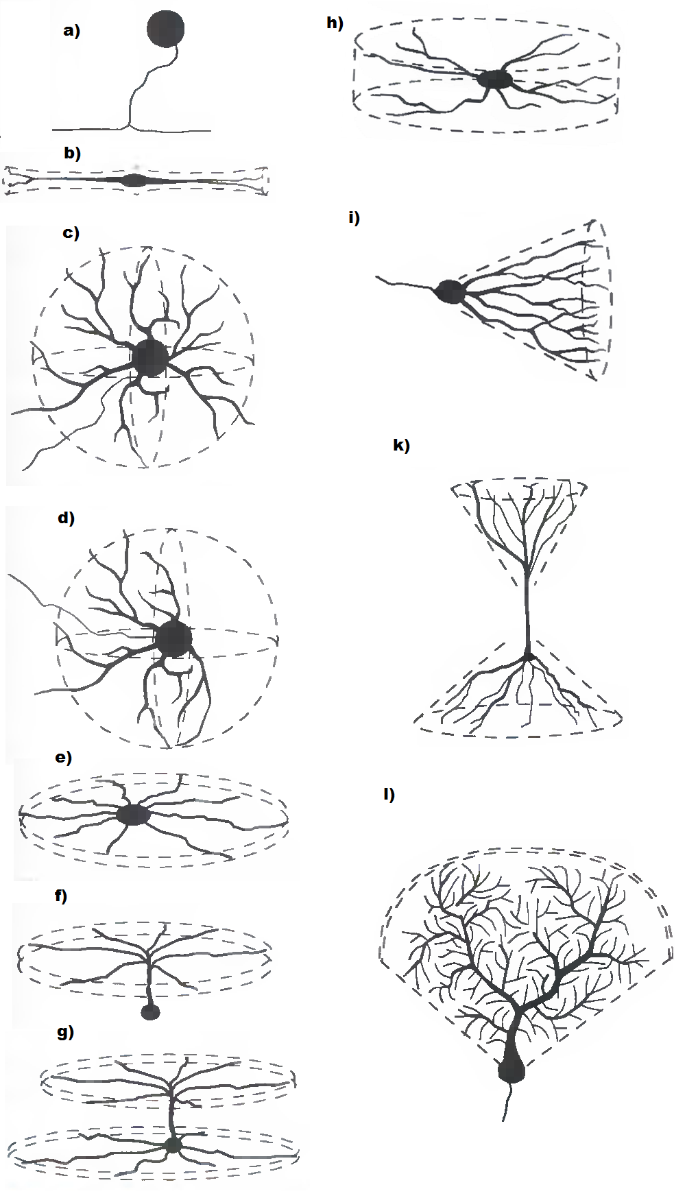 Dendritic arborization patterns